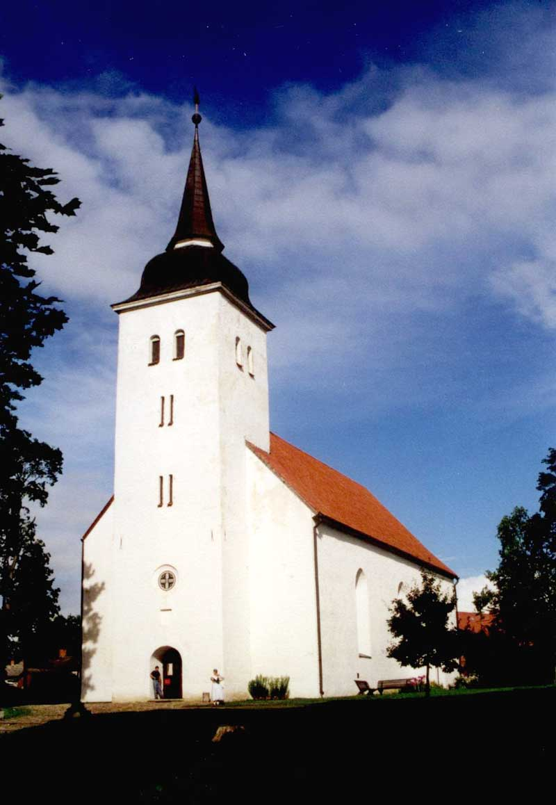 St. John's Church (Jaani kirik) in Viljandi, Estonia